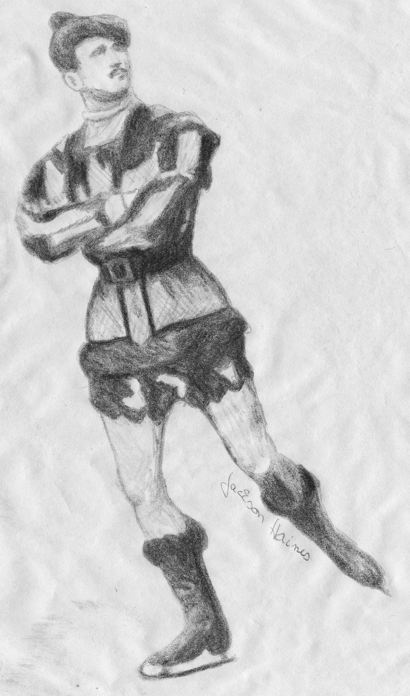 Jackson Haines - Figure Skater (drawing) Source: Helena Grigar